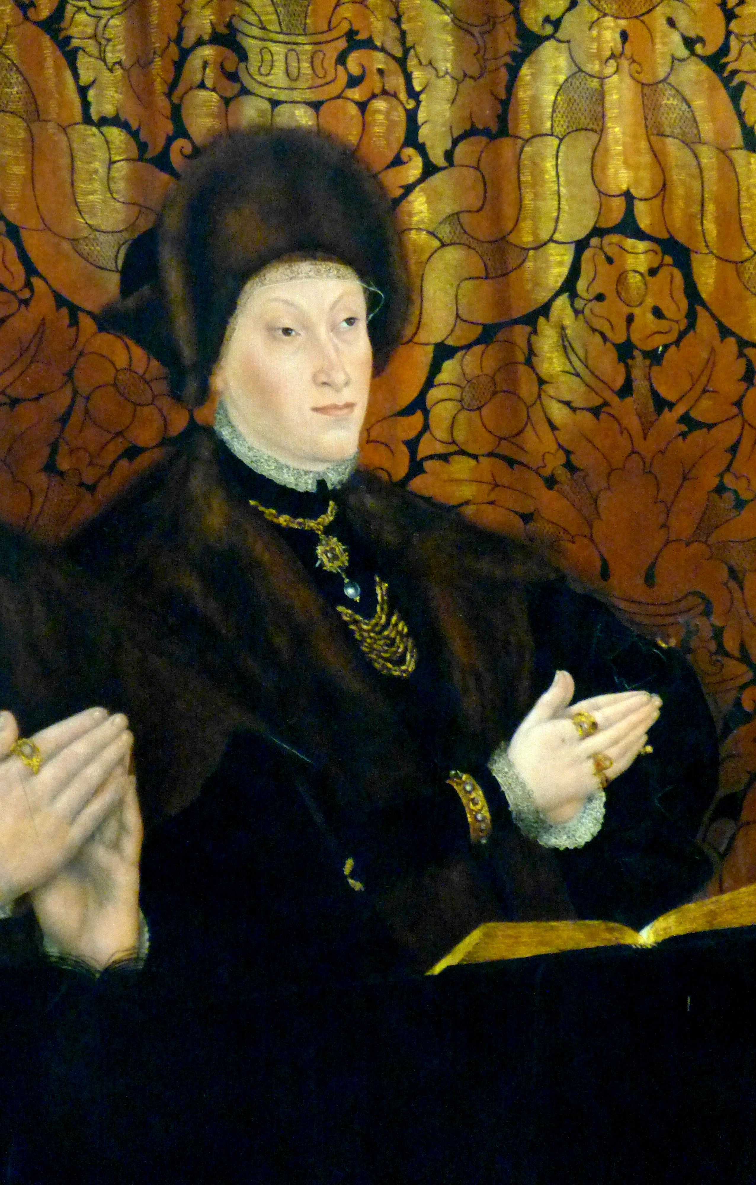 Weimar ( Thuringia ). Herder church: Altar ( 1555 ) of the crucifixion of Christ by Lucas Cranach the Younger - left wing: Sybille of Cleves as donor ( detail )